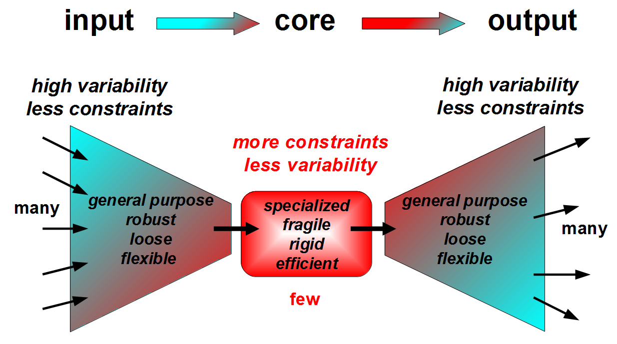 author: Paolo Tieri/Unauthorized Immunophysicist, scheme of a general bow tie architecture.